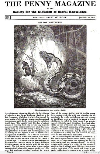 Penny Magazine of the Society for the Diffusion of Useful Knowledge, October 27, 1832. Published in London by Charles Knight. This was Number 32.